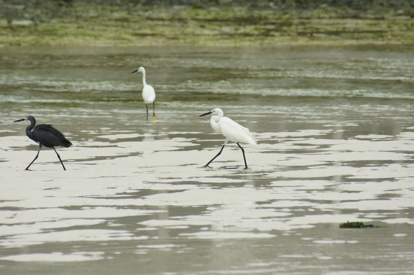 Egretta ardesiaca, Black heron on a beach in Nungwi, Unguja North Region of Zanzibar Island. Egretta garzetta is the white one.